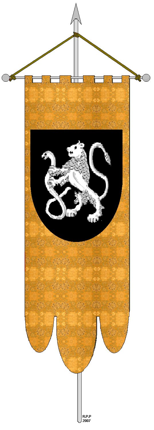 Gonfalone of the Republic of Senàrica